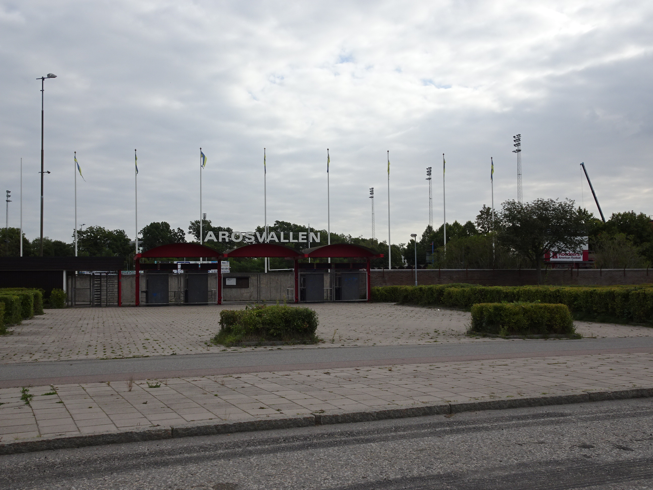 Kristiansborg (not Gåsmyrevreten), a district in Västerås, Sweden. Arosvallen sport stadium.